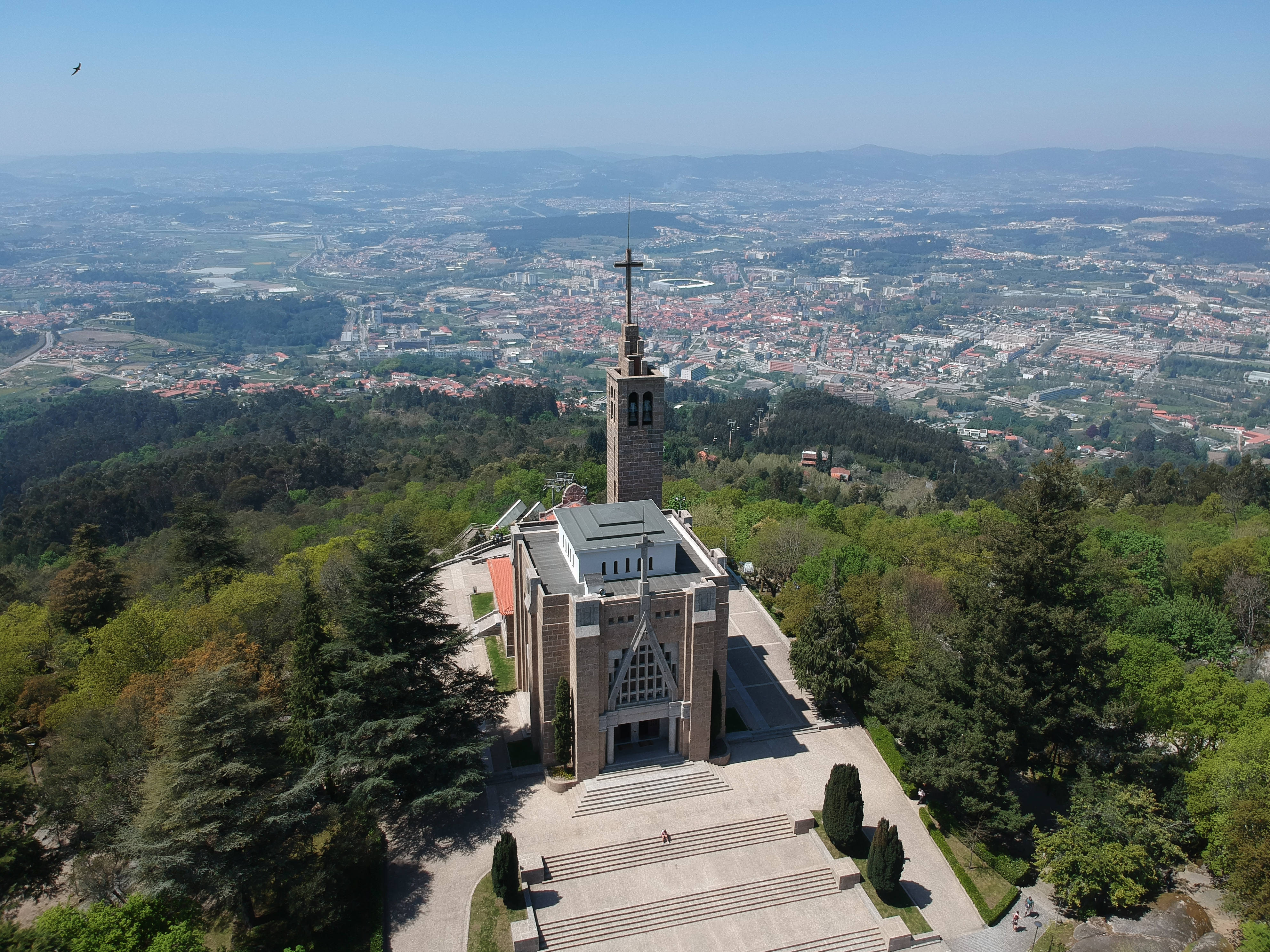 Santuário da Penha, Guimarães Portugal.